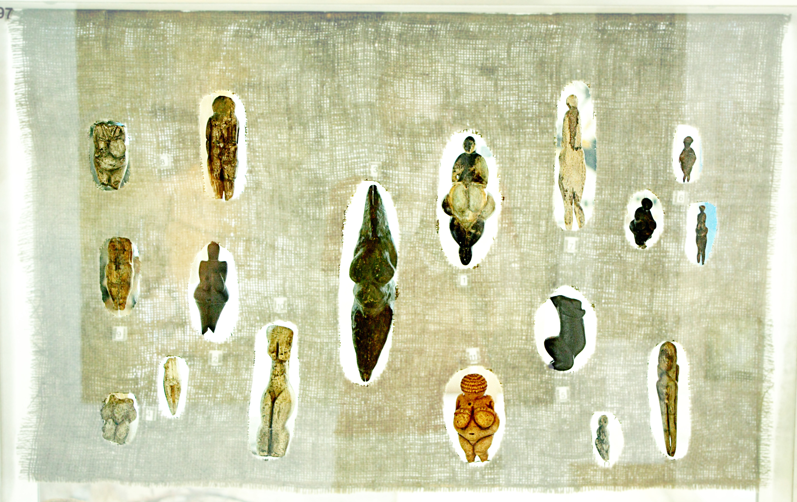 Different types of carved Venus figurines, Anthropos Museum, Brno, Czech Republic